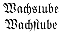 "Wachstube": "Wachs-tube" (collapsible tube of wax) / "Wach-stube" (guardroom) set in “Kleist-Fraktur”. This classical example illustrates the use of long s and round s in German black letter.